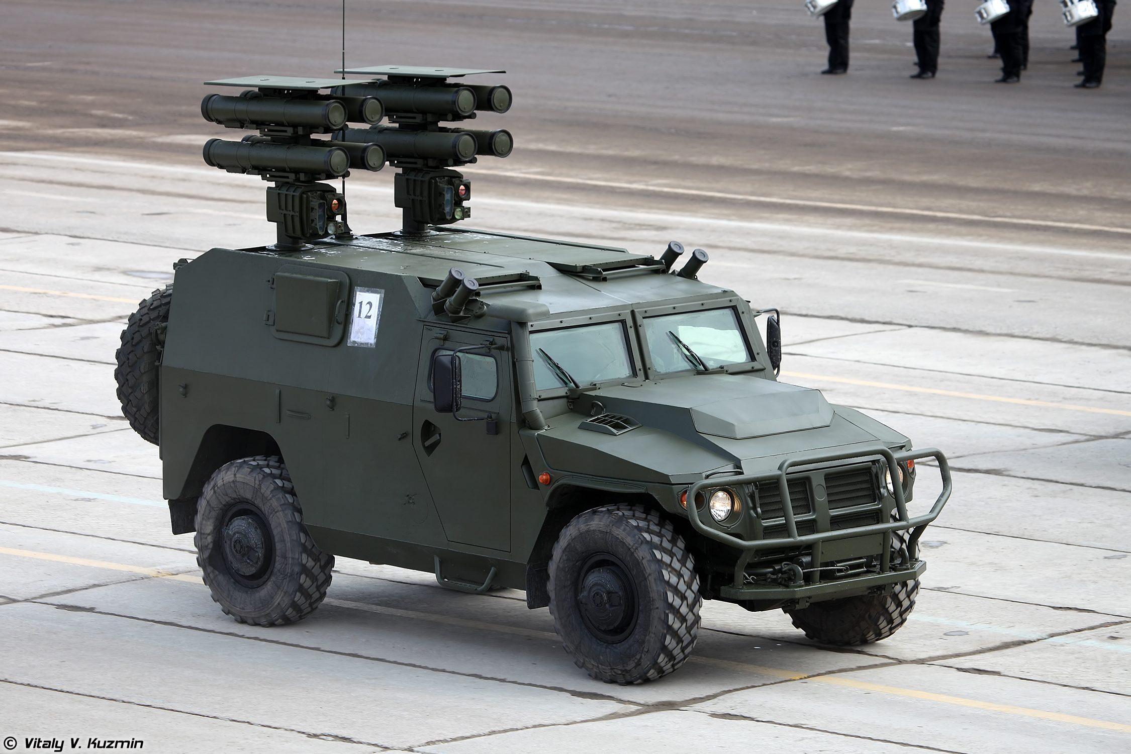 Kornet-D ATGM system on VPK-233116 Tigr-M base